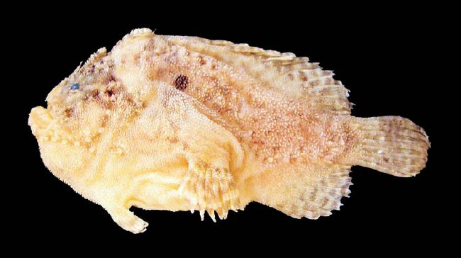 Hutchins' Anglerfish - Hutchins Anglerfisch